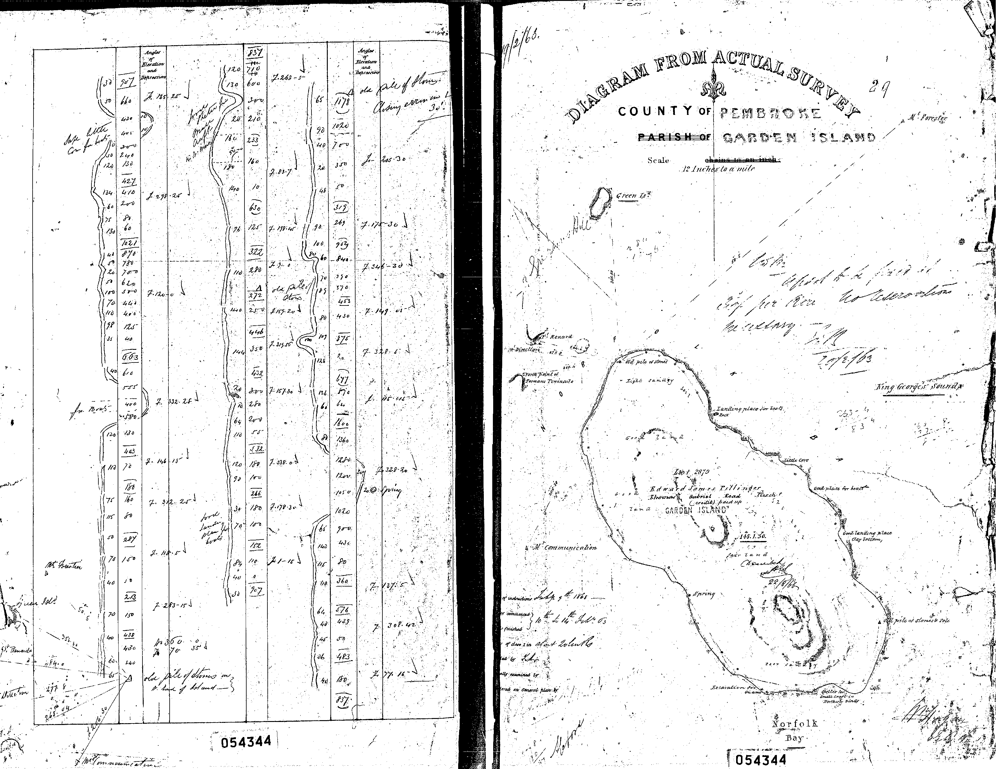 Original, unedited surveyance report of Smooth Island from 1863, including the perimeter survey. The triangle at the bottom left column of the perimeter survey on the first page corresponds with the 'old pile of stones' at the northern aspect of the island on the birds-eye view on the second page. CPO Reference: PEM4/29. Grantee: PILLINGER, E.J. Area (Acres):145-1-30. Lot Number:2879. Grant ID:46775. Type:Grant[1]